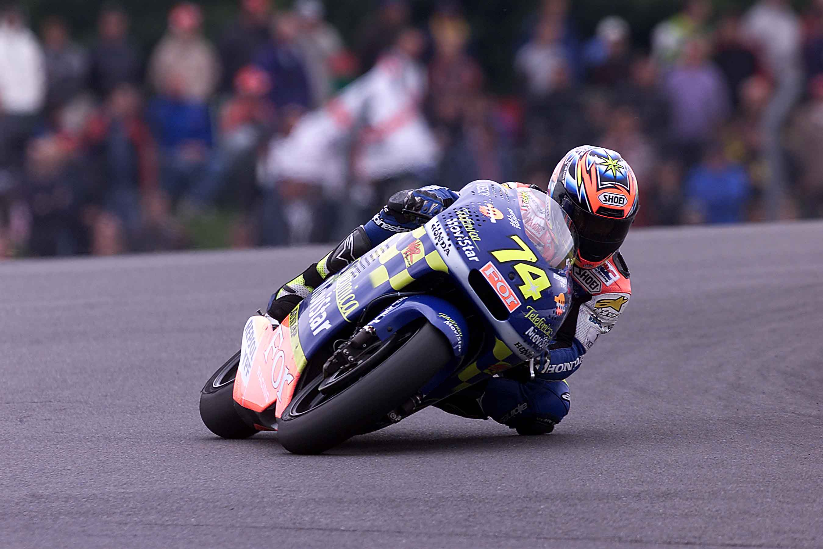 Talent with a tragic end. Daijiro Kato claims his sixth win of the year at Donington Park (Great Britain). His 250cc title would draw ever closer.